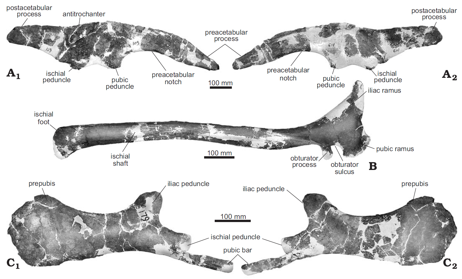 The hadrosaurid dinosaur Sahaliyania elunchunorum gen. et sp. nov. from the Upper Cretaceous Yuliangze Formation at the Wulaga quarry, China. A. GMH W103, right ilium in lateral (A1) and medial (A2) views. B. GMH W400−2, right ischium in lateral view. C. GMH W179, left pubis in lateral (C1) and medial (C2) views.